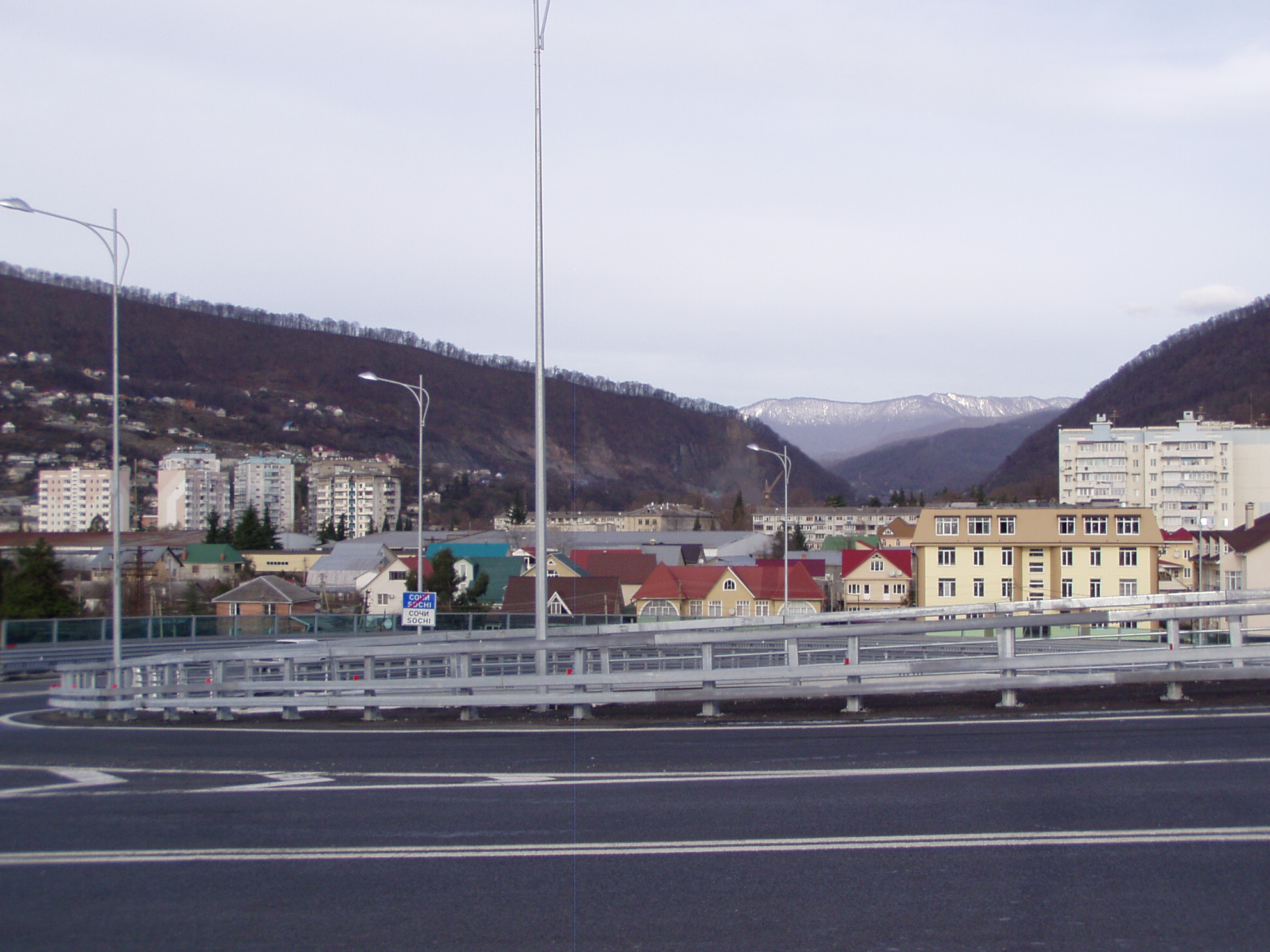 Truda district in Sochi, Russia